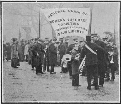 The band that led the Mud March, February 1907